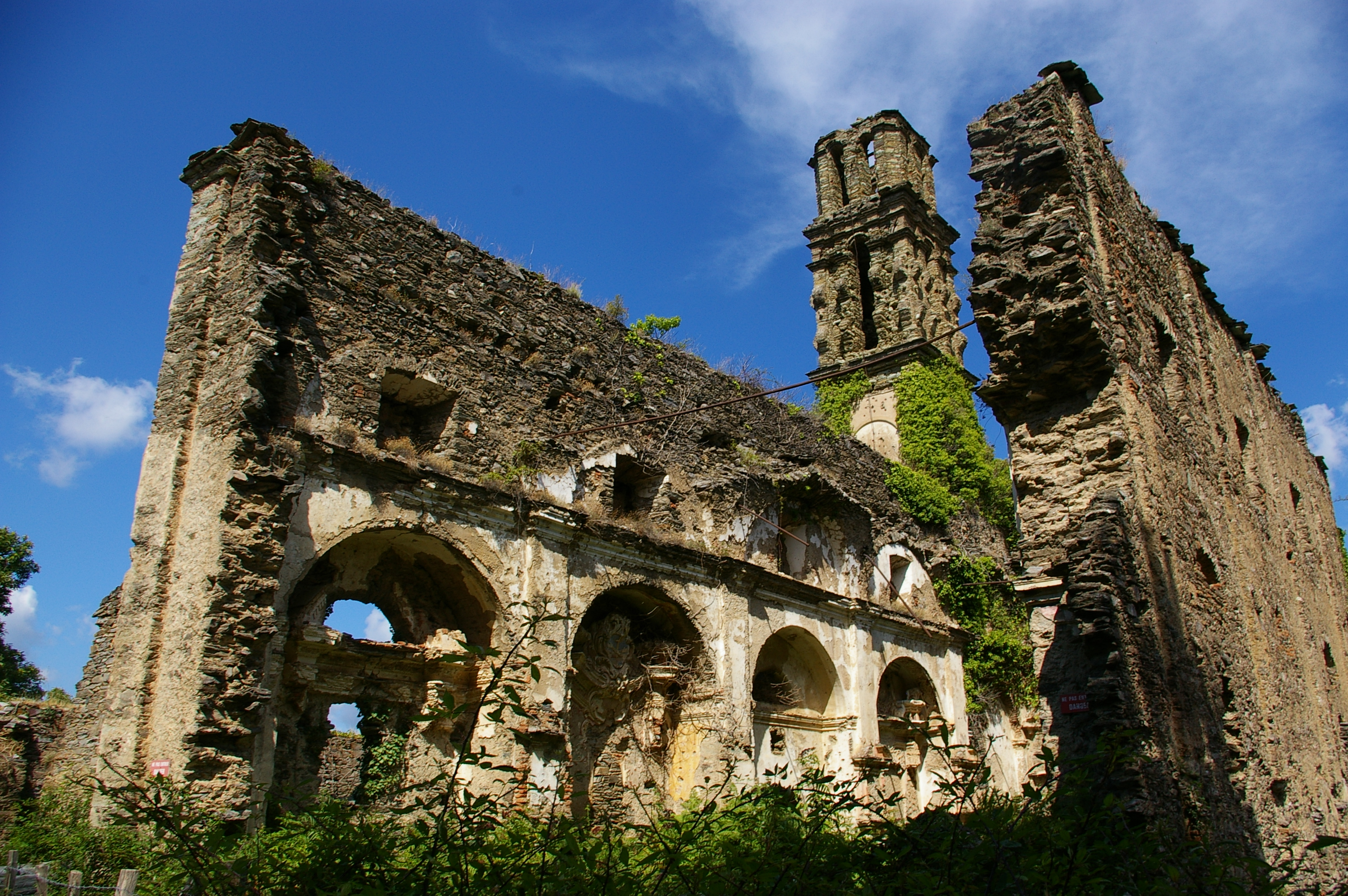 Monastery of Orezza in Piedicroce (Corsica)